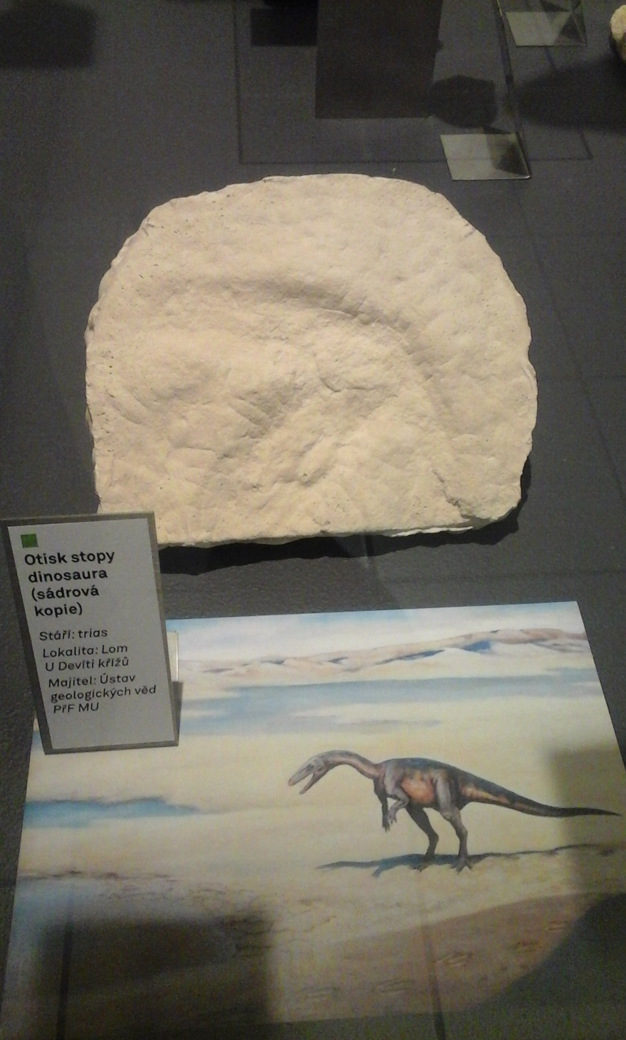 Cast of a tridactyl theropod dinosaur footprint from Červený Kostelec (Czech Republic). Footprint is 14 cm long and hails from Upper Triassic strata.